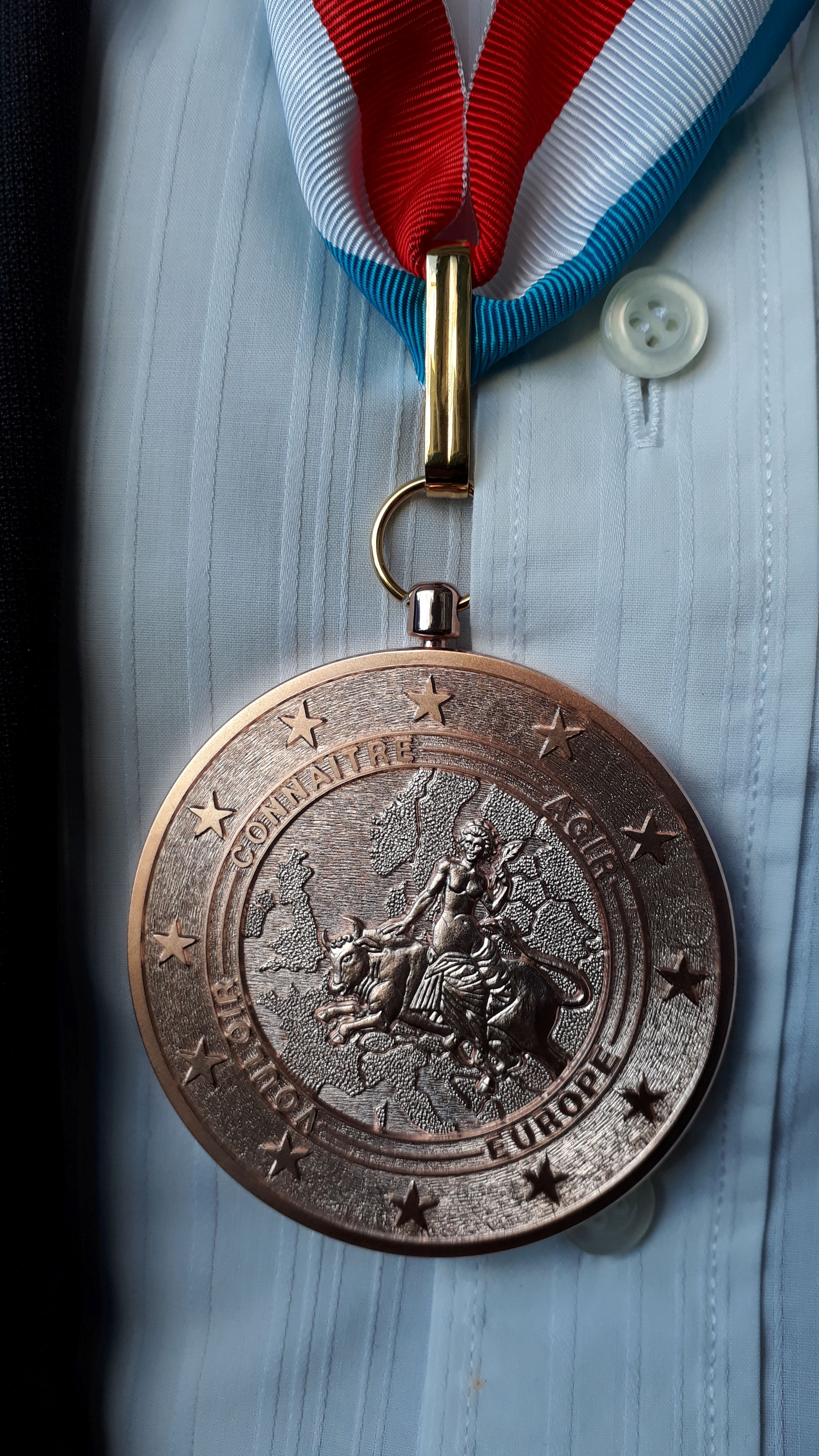 Awarded by Mérite Européen in Forchtenstein Castle in Styria (Neumarkt)